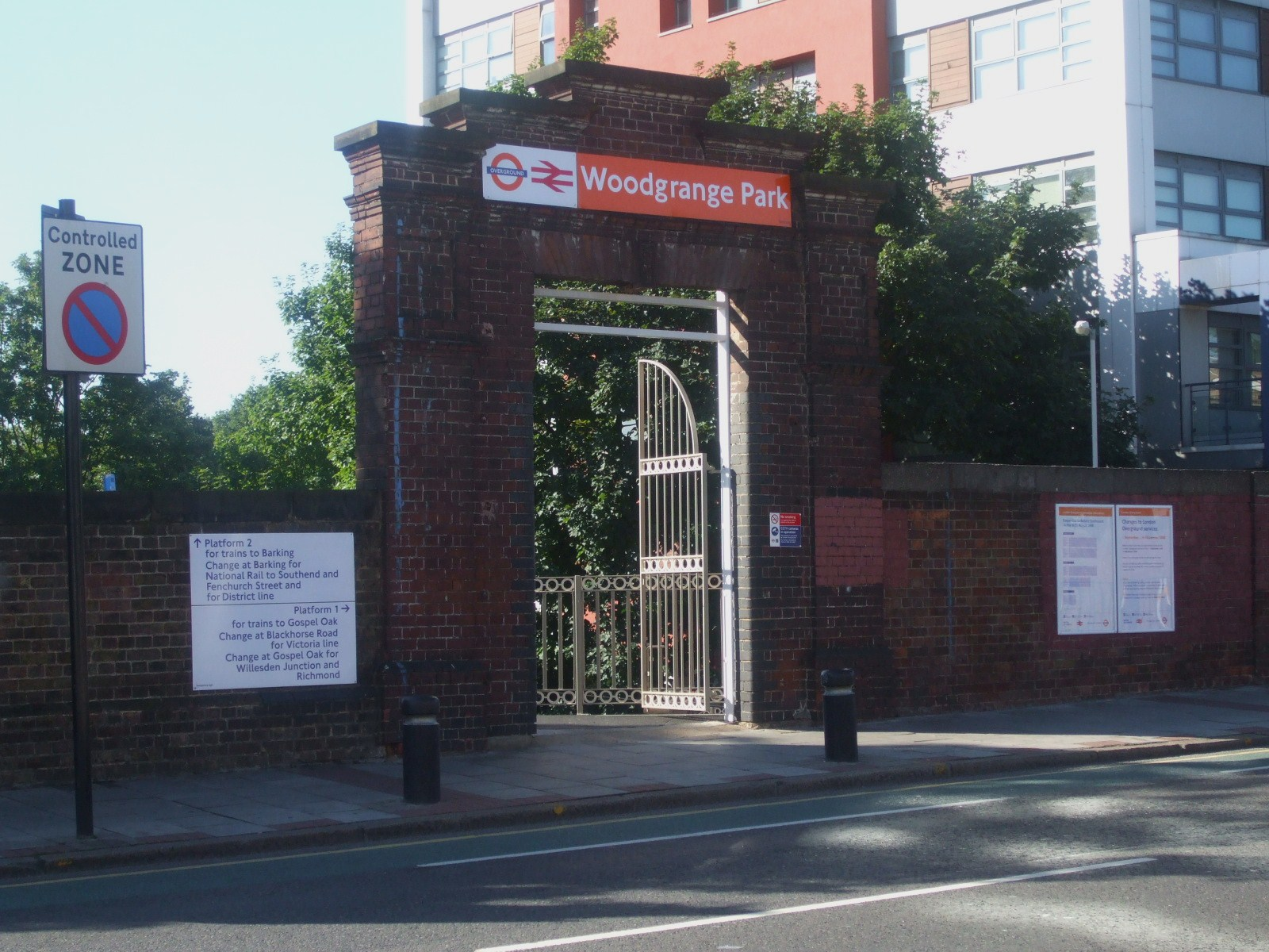 Woodgrange Park station entrance on the eastbound (Barking-bound) side